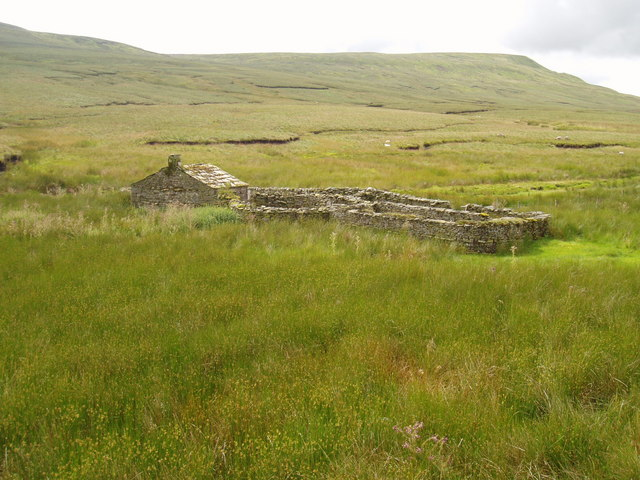 Sheepfold in Birk Dale When this was taken at the end of July the cottage and walls were almost lost in the surrounding grasses. In the background on the right on the far side of Uldale Beck stands High Pike(642m) which forms the northern end of the Mallerstang ridge.